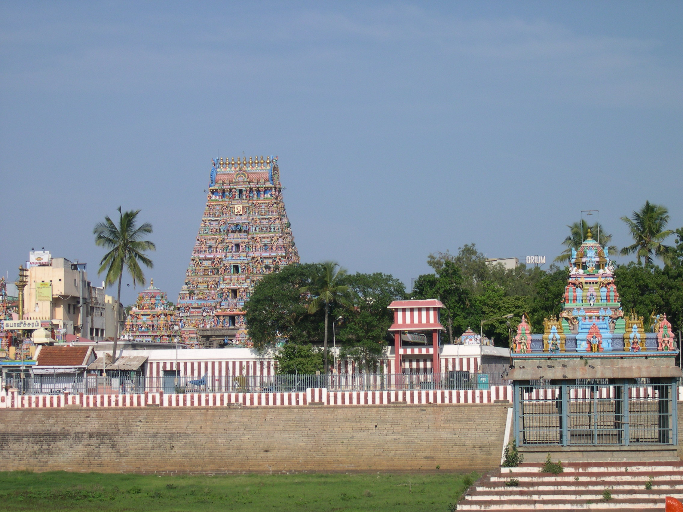 Kapaleeshwarar temple in Mylapore, Chennai.Arulmigu Kapaleeswarar Temple, Chennai